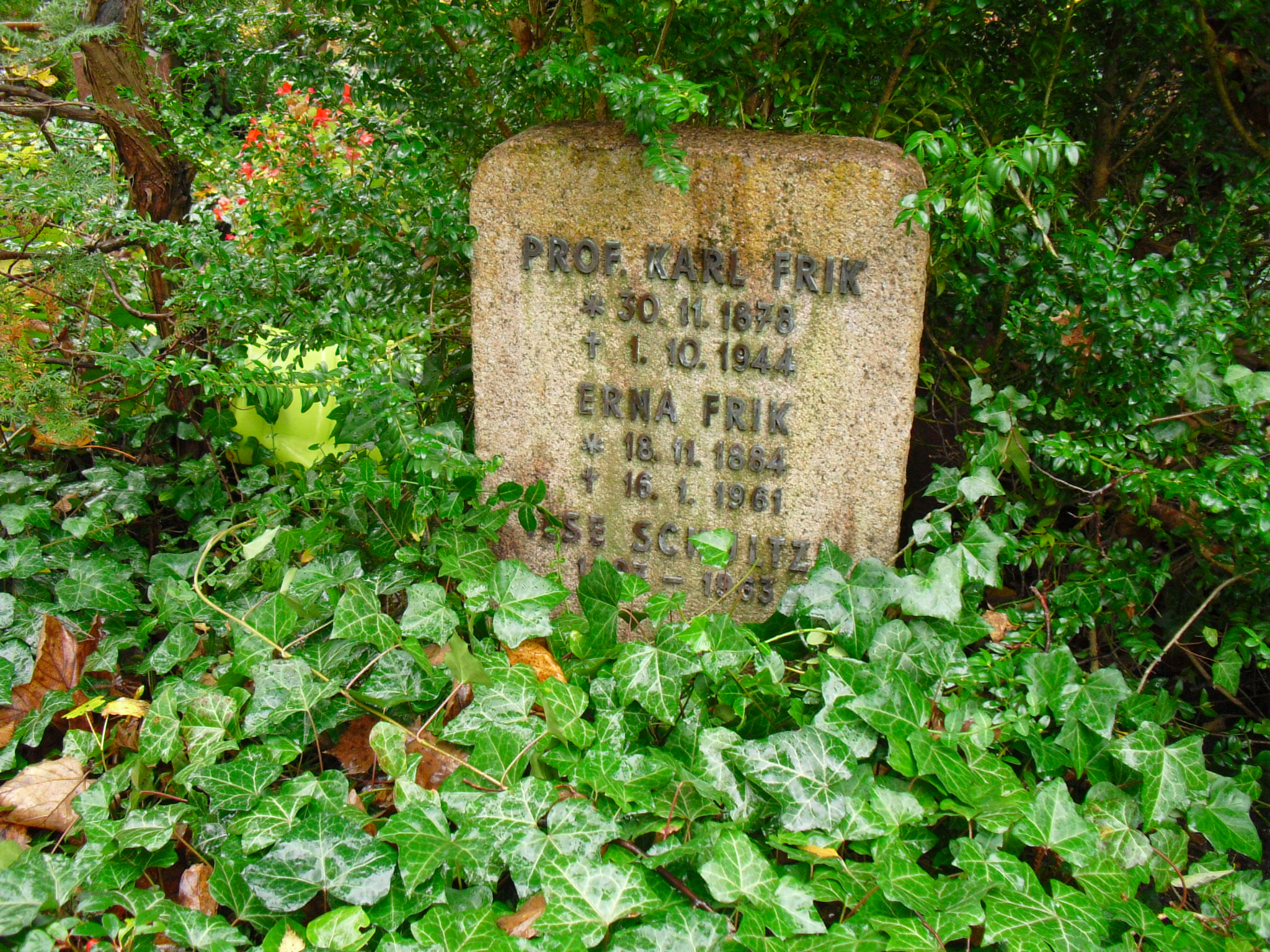 Grave of German radiographer Karl Frik at Friedhof Heerstraße in Berlin-Westend